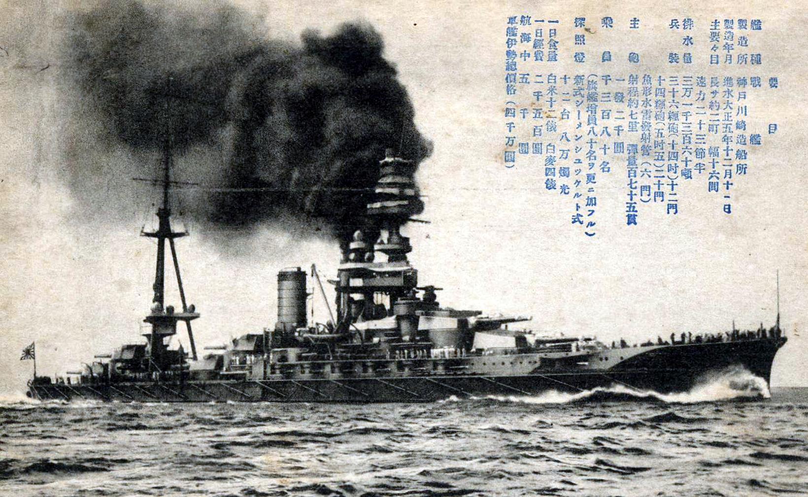 Ise is the Imperial Japanese Navy's first Ise-class battleship.